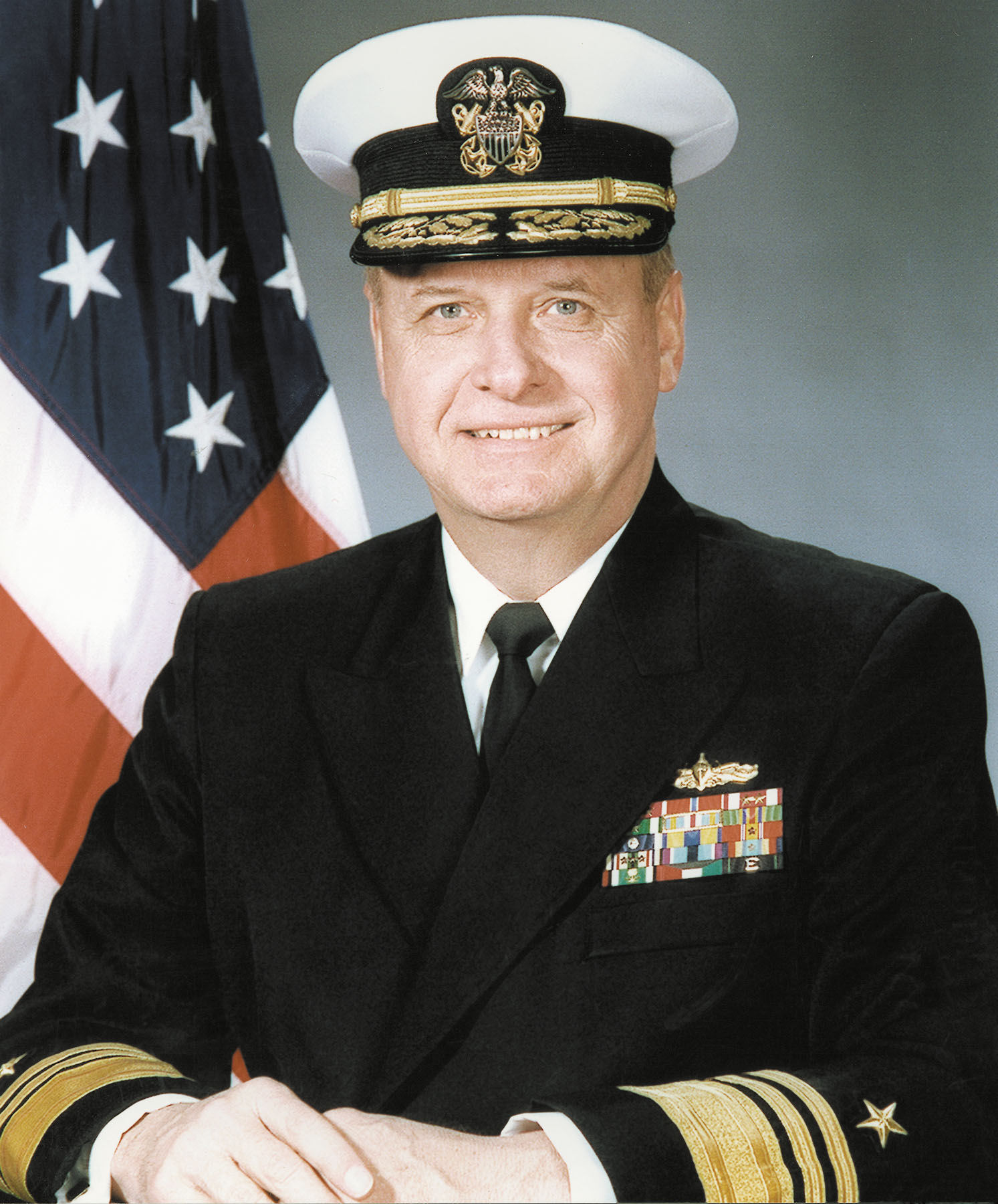 Vice Admiral Gordon S. Holder, USN Commander, Military Sealift Command